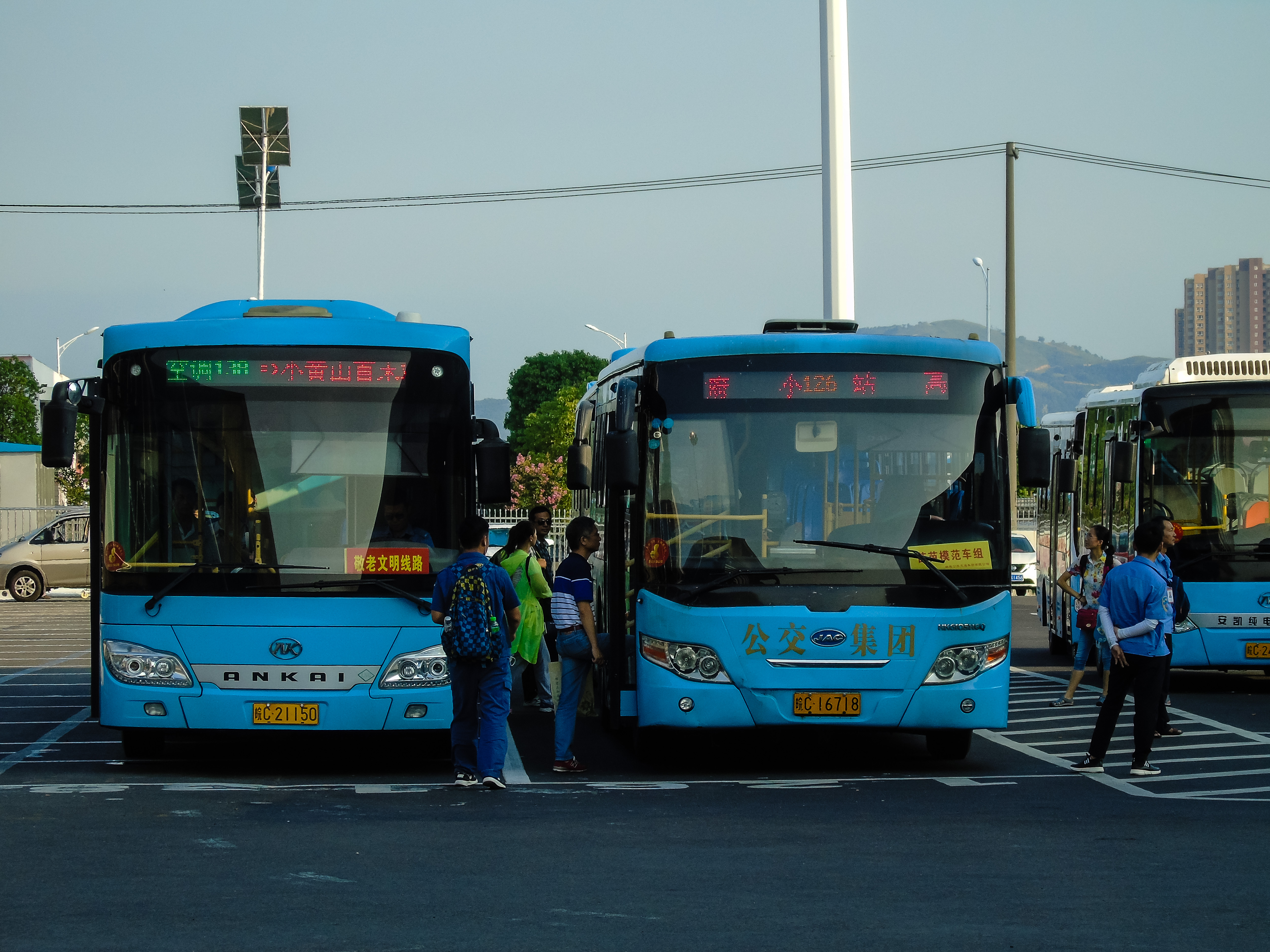 Bengbu Bus No.138 and No.126 at Bengbunan Railway Station